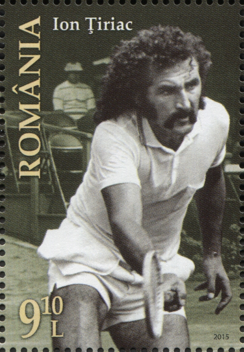 Stamps of Romania, 2015